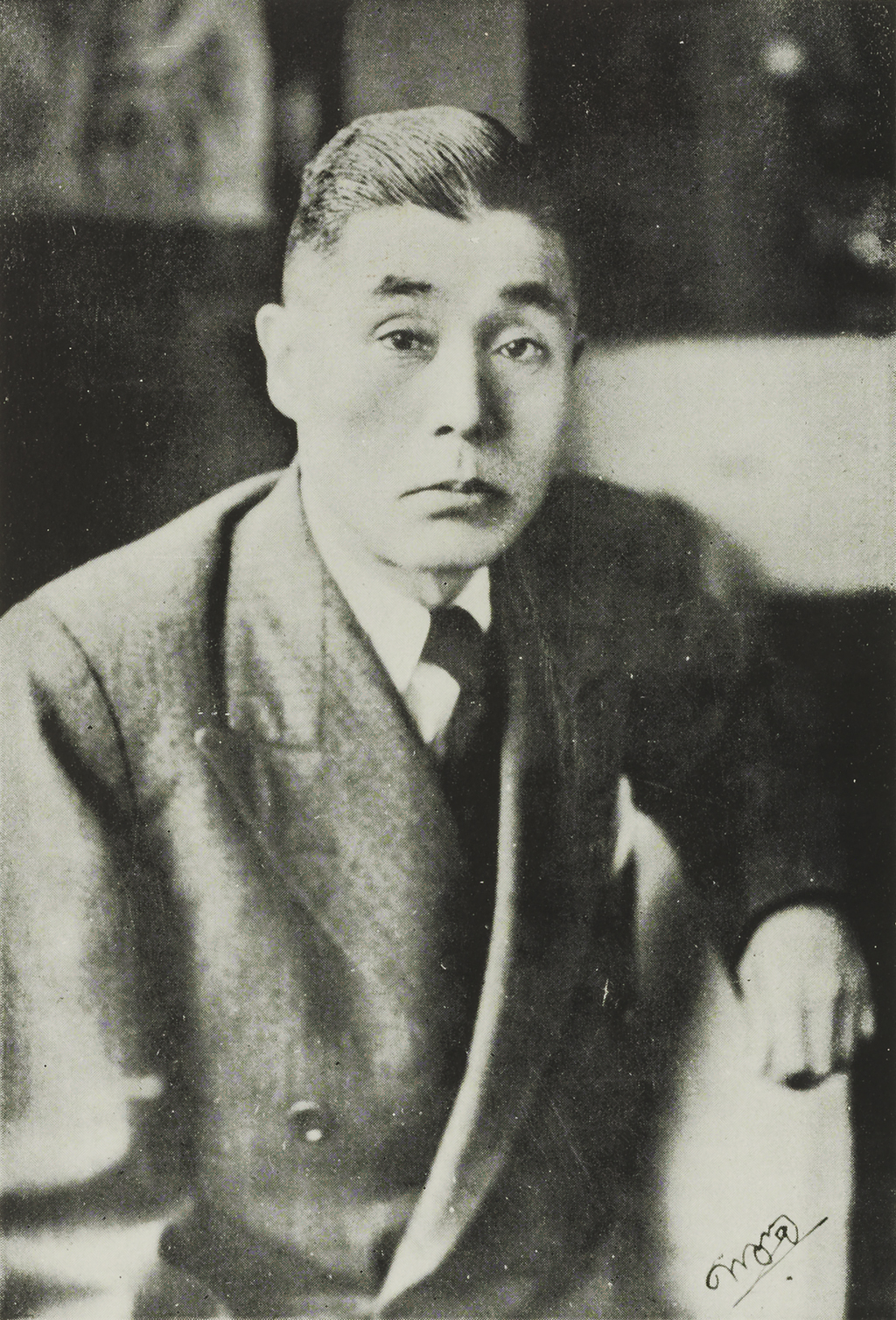 Portrait of Maeda Hisakichi (前田久吉, 1893 – 1986)